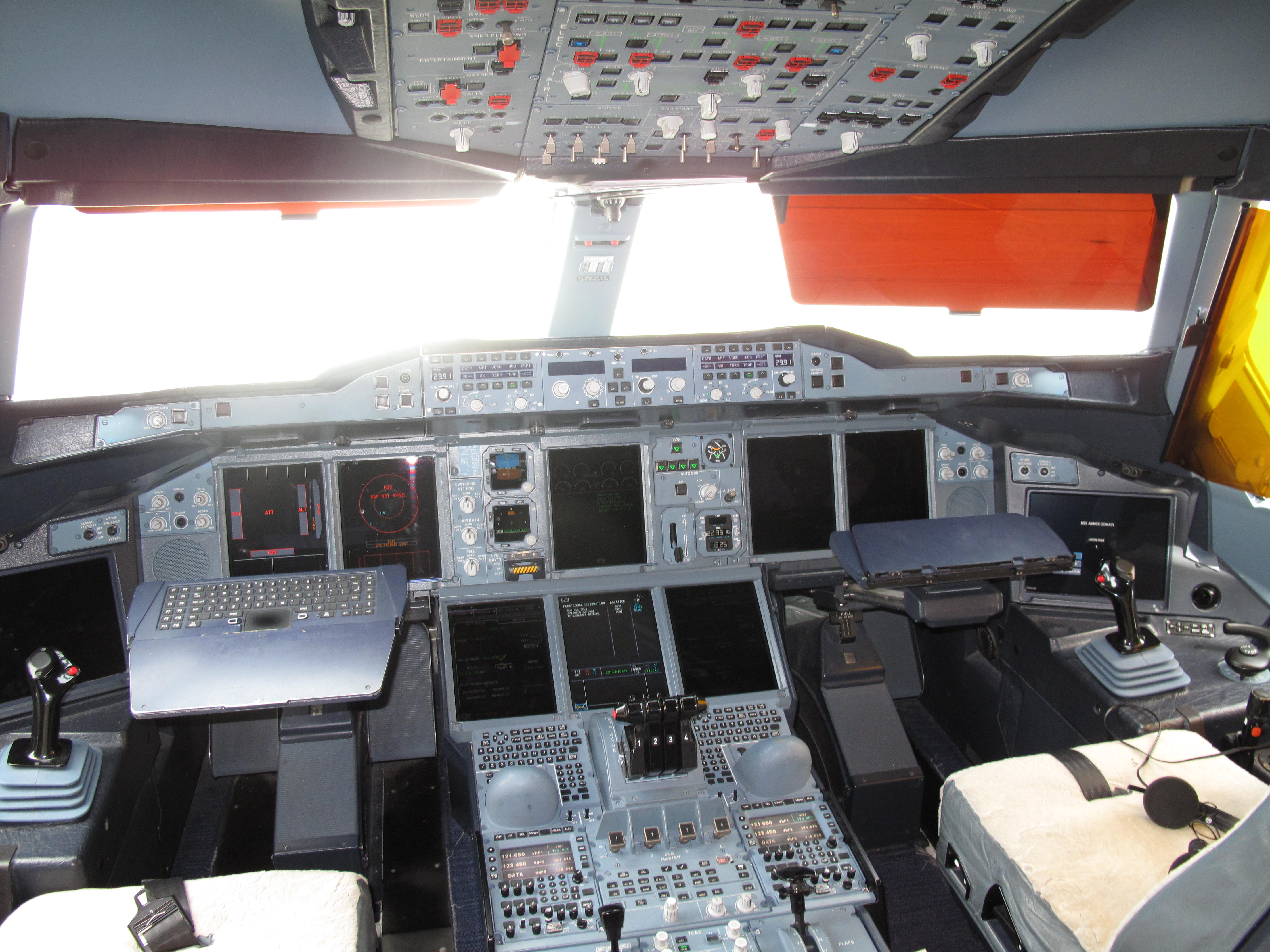 Qantas' Hudson Fysh, an Airbus A380.